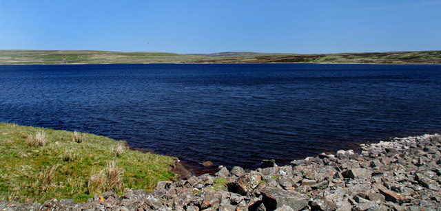 Cow Green Reservoir The southern tip of Cow Green Reservoir seen from the west end of the dam.